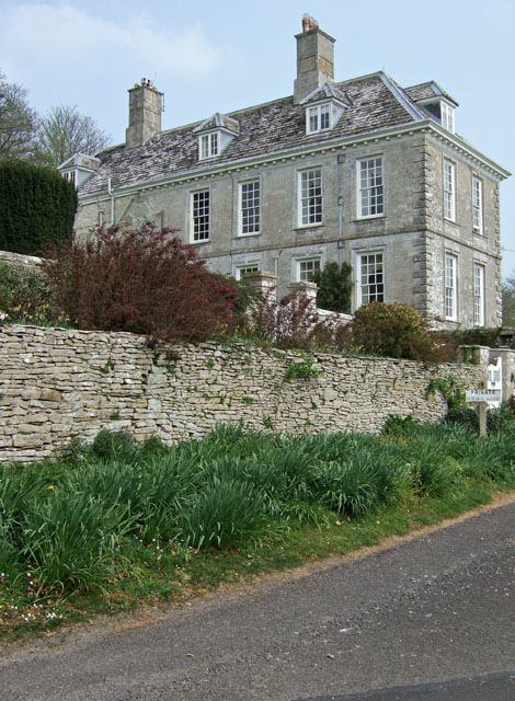 Waddon House This Queen Anne style house is what remains of a much larger 17th century mansion largely destroyed by fire in 1704. It was chosen as a location for the film version of Thomas Hardy's novel, "Far from the Madding Crowd". The house is Grade I listed.